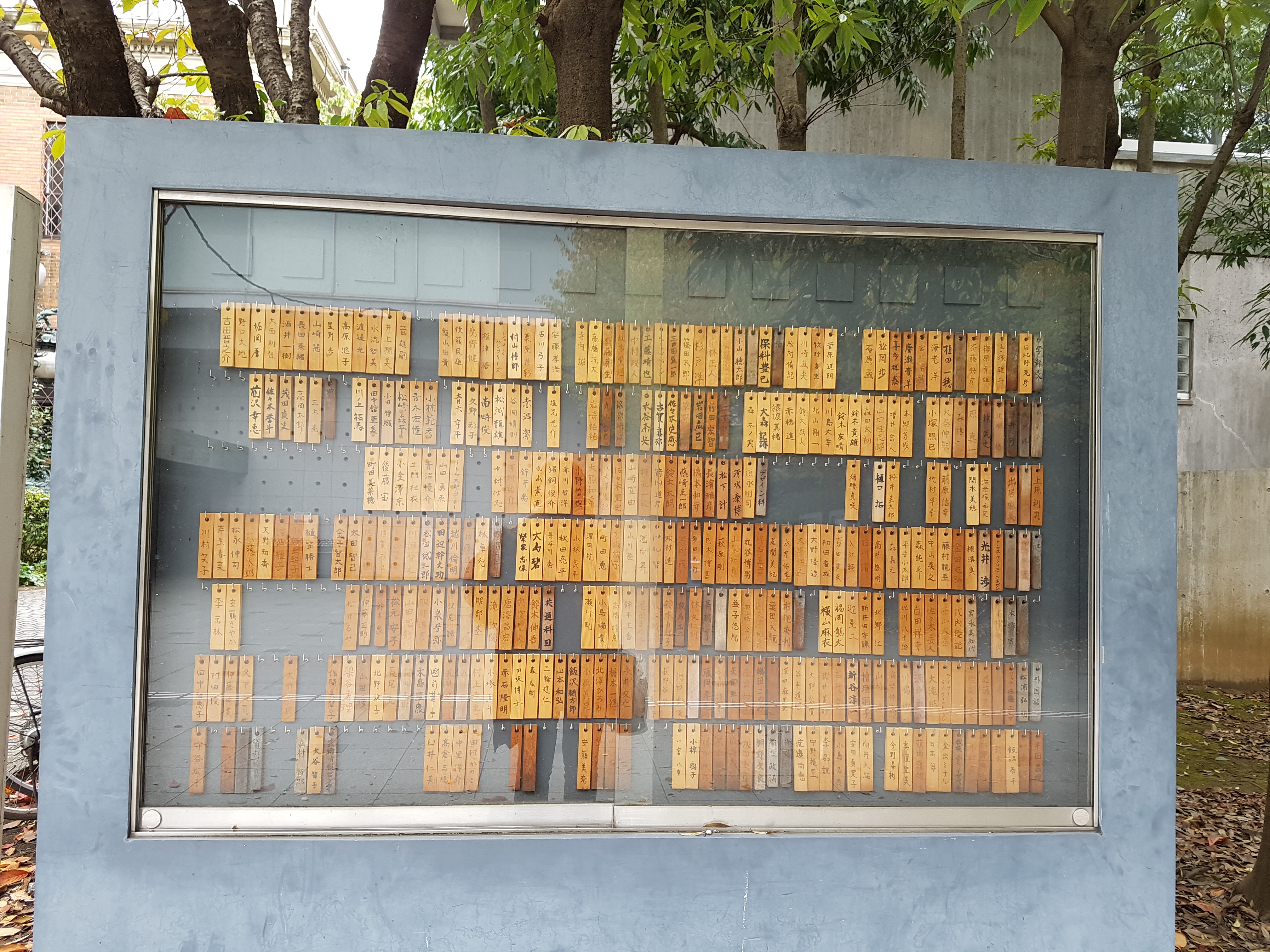 Tokyo University area